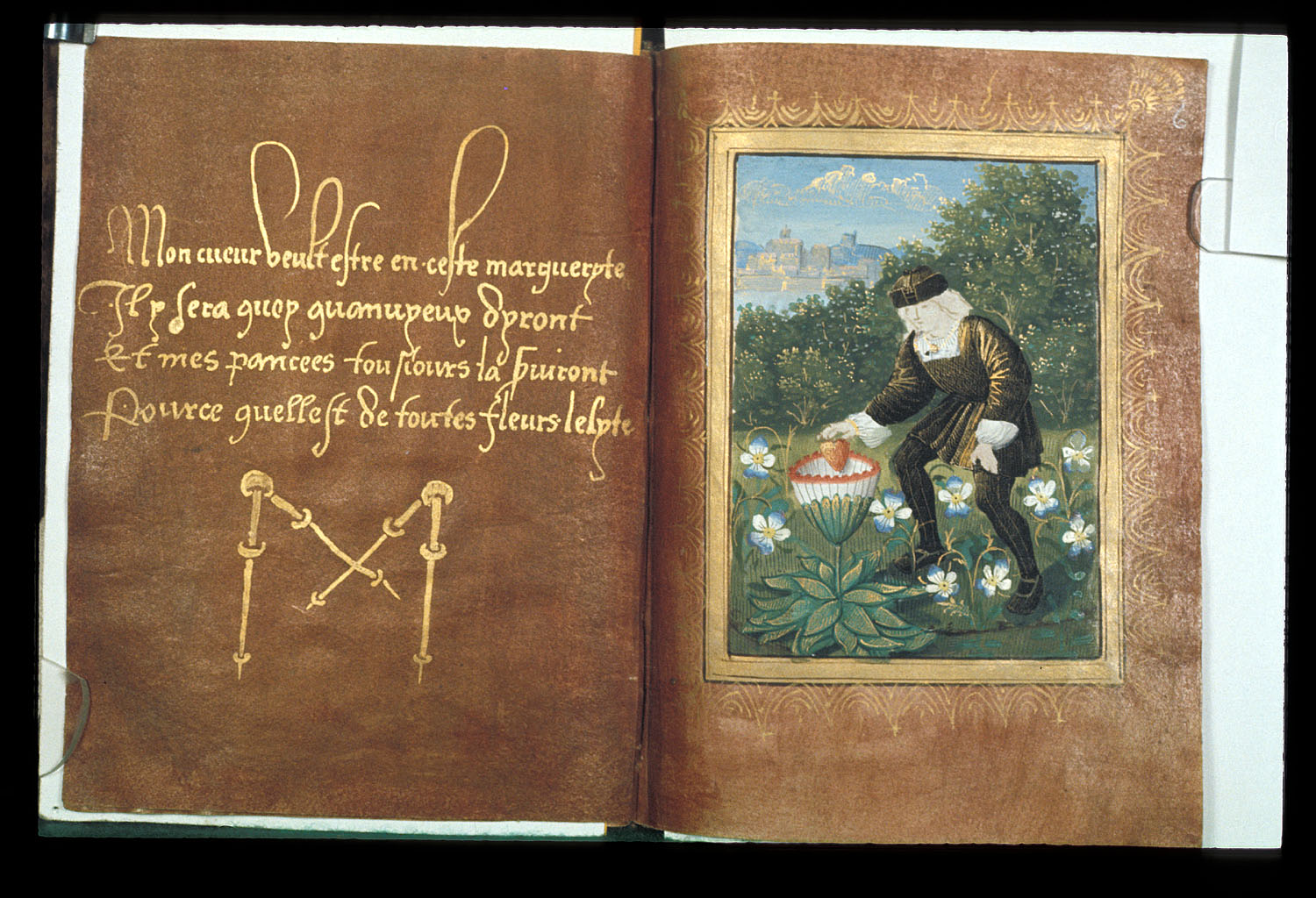 Petit Livre d'amour by Pierre Sala. Folio 5v-6r. British Library